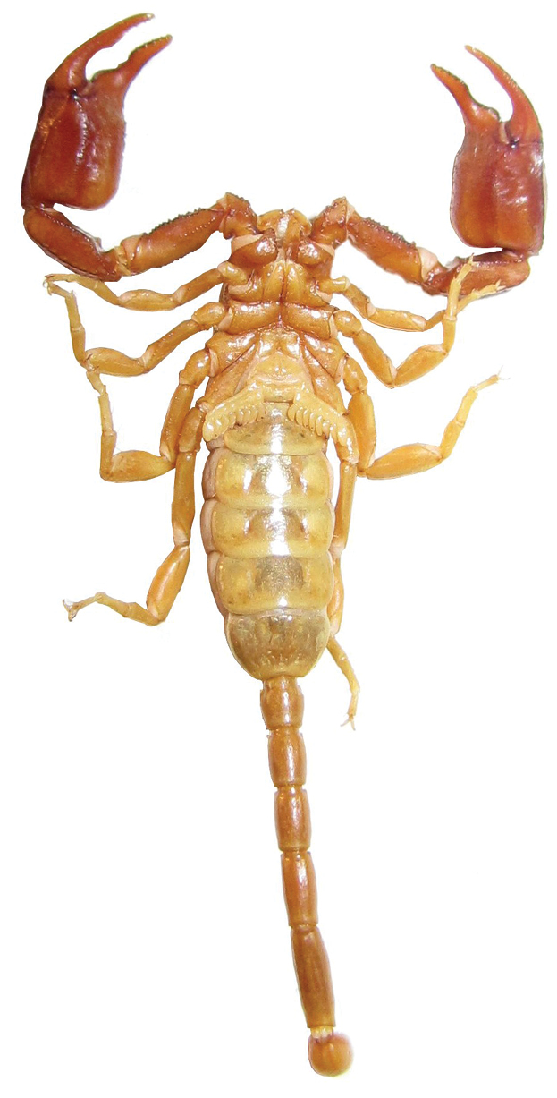 Ventral view of Euscorpius avcii male